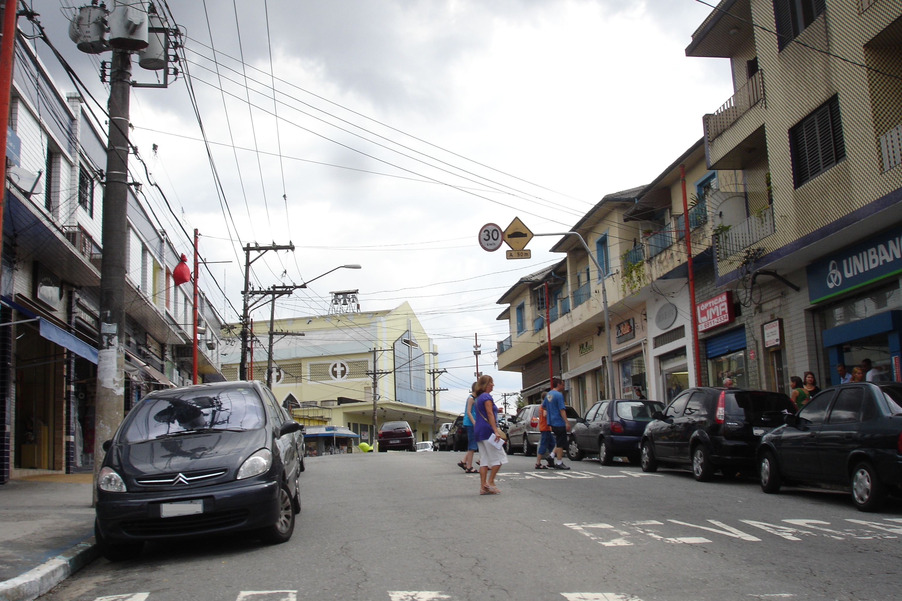 District São Lucas, in East zone of São Paulo City.